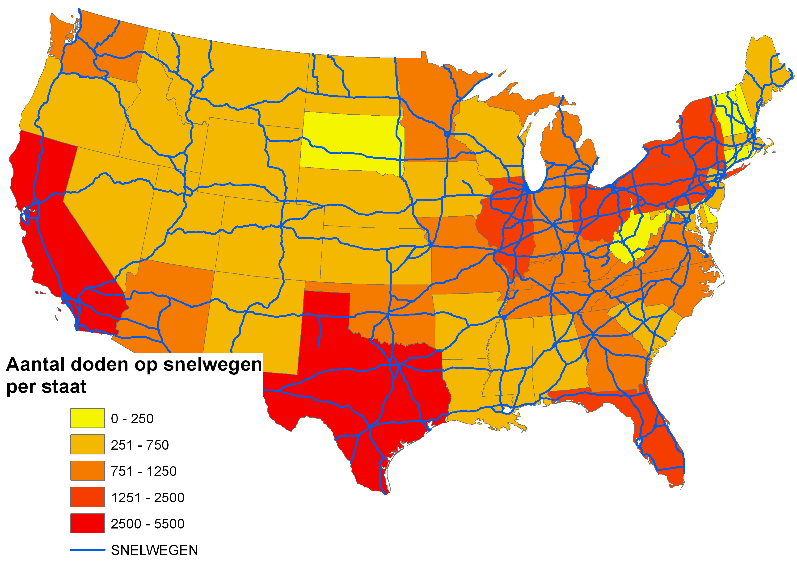 A map of the United States (in Dutch) illustrating the number of highway fatalities per state. The blue lines are highways. The visualization is an estimate that assumes that the number of highway deaths in a state is proportional to the highway length and population of each state.